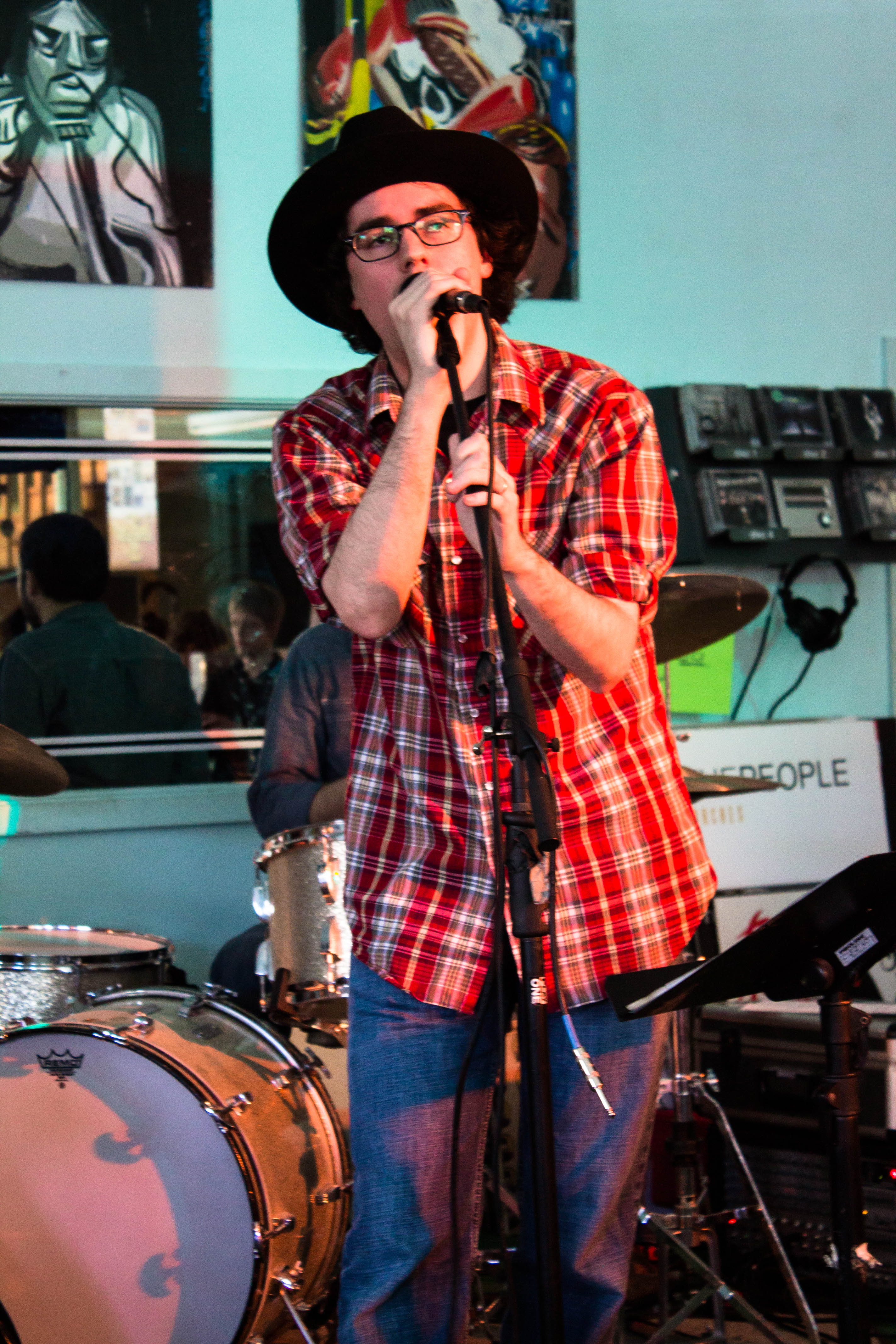 Nicholas Altobelli live on concert in 2013